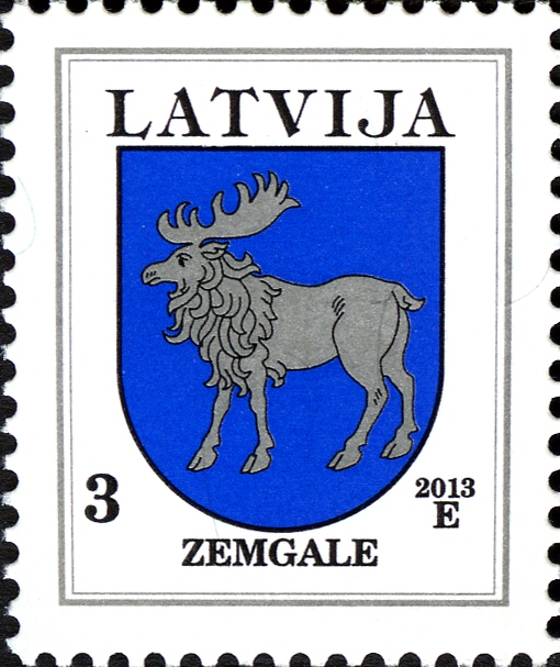 Stamps of Latvia, 2013